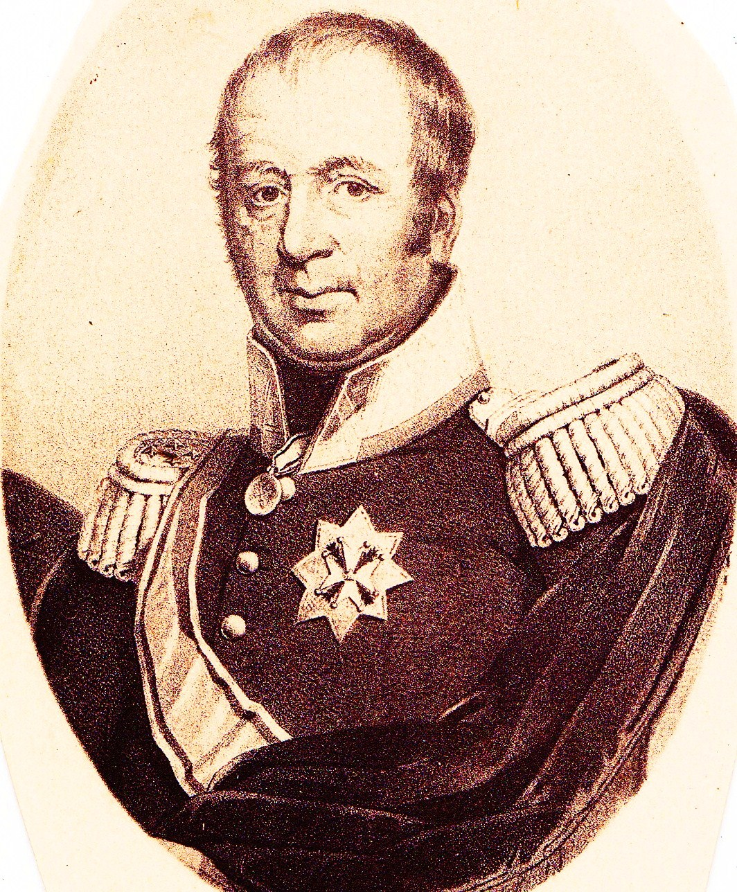 Leopold van Limburg Stirum